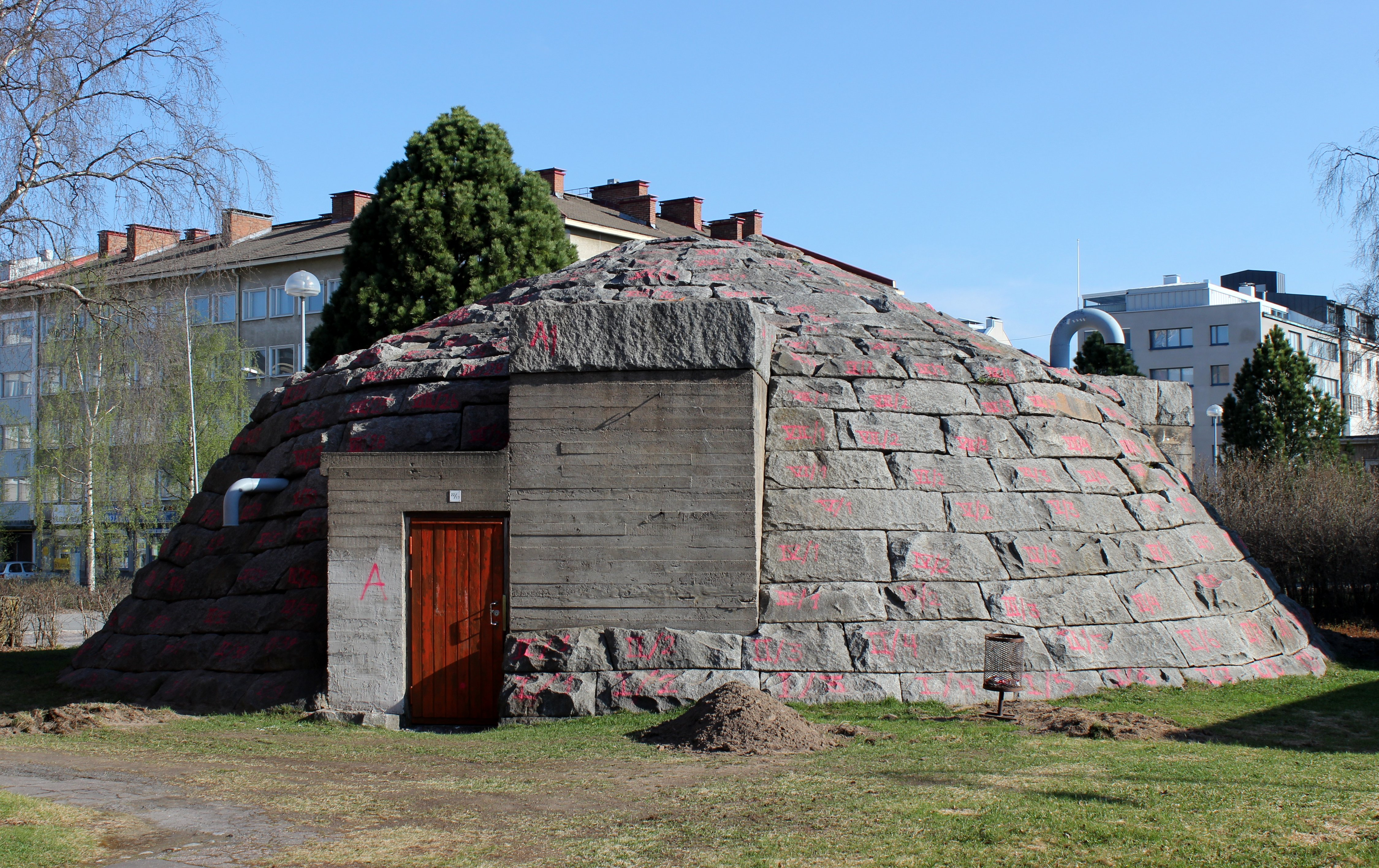 The stone bunker called "Kivikukko" in the city of Oulu, Finland.